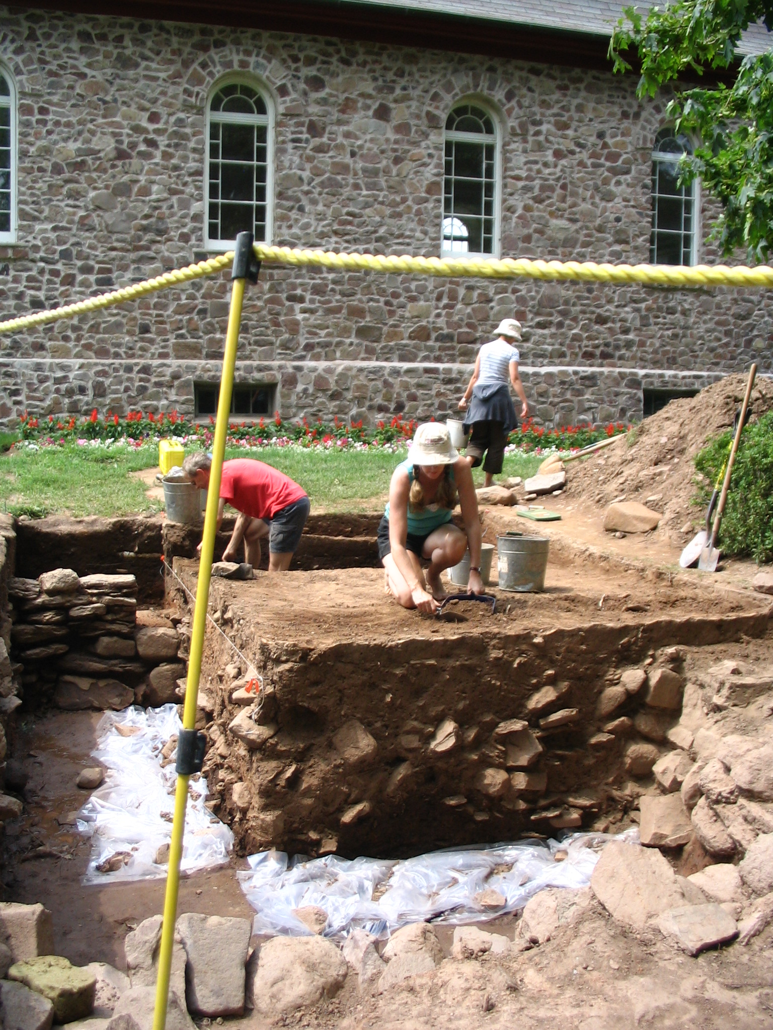 Archeological research in Grand-Pré, Nova Scotia